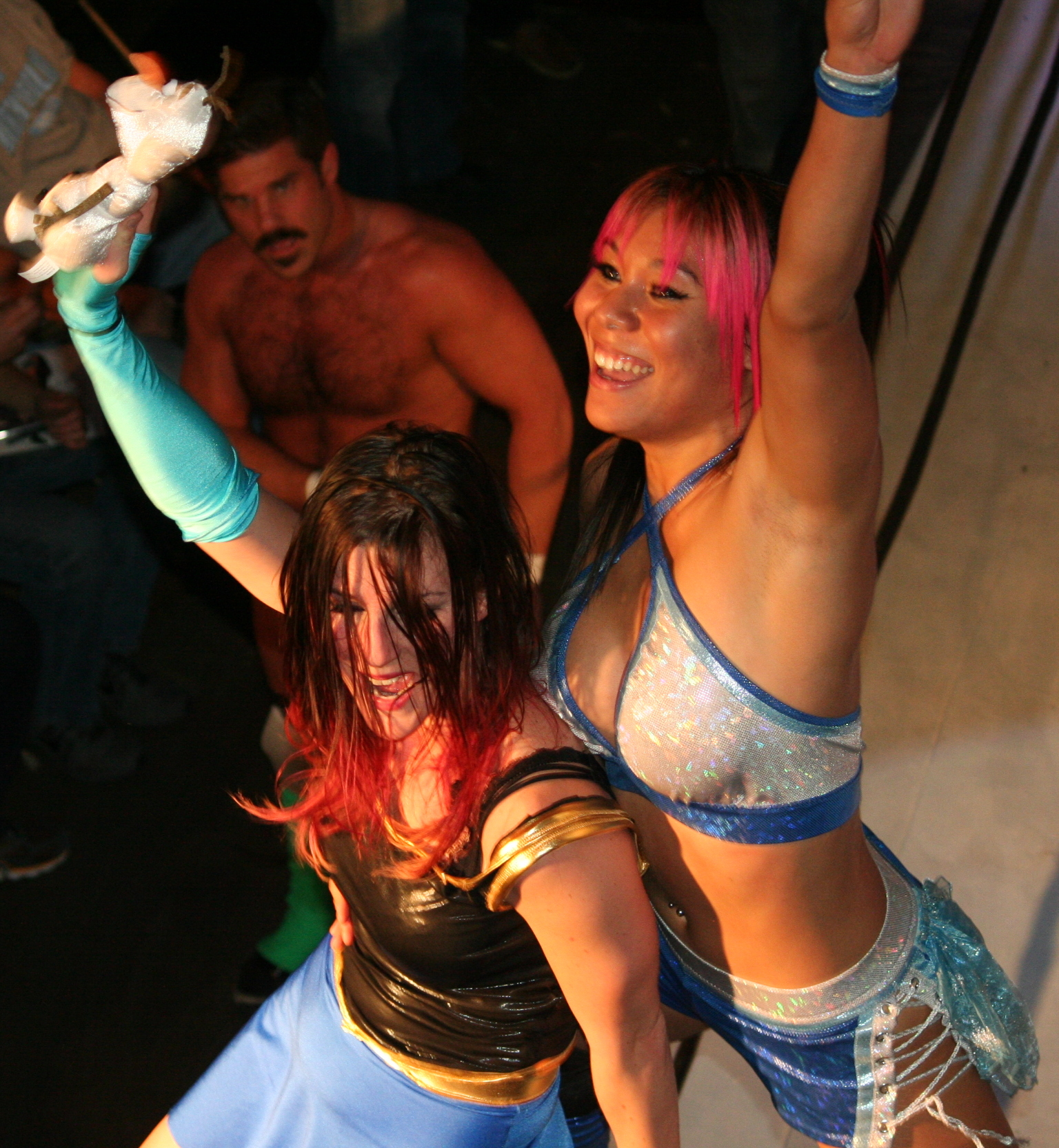 The Lucha Sisters (Leva Bates and Mia Yim, right) at a Queens of Combat show in November 2014. Cropped from original.